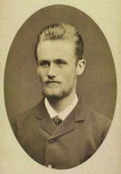 Jacob Anker Bie (1861-1936), Danish brewer